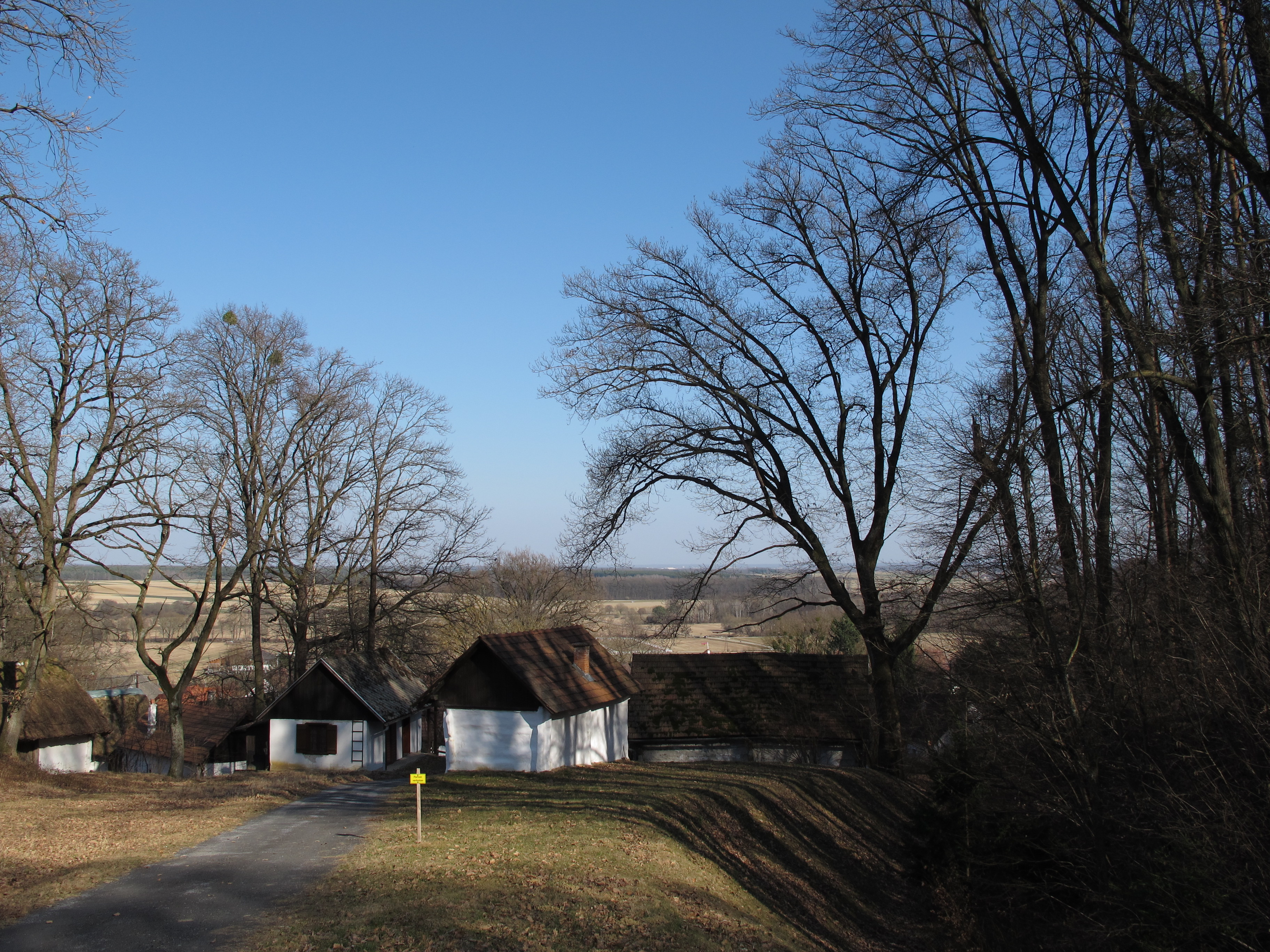 Heiligenbrunn Kellerstöckl